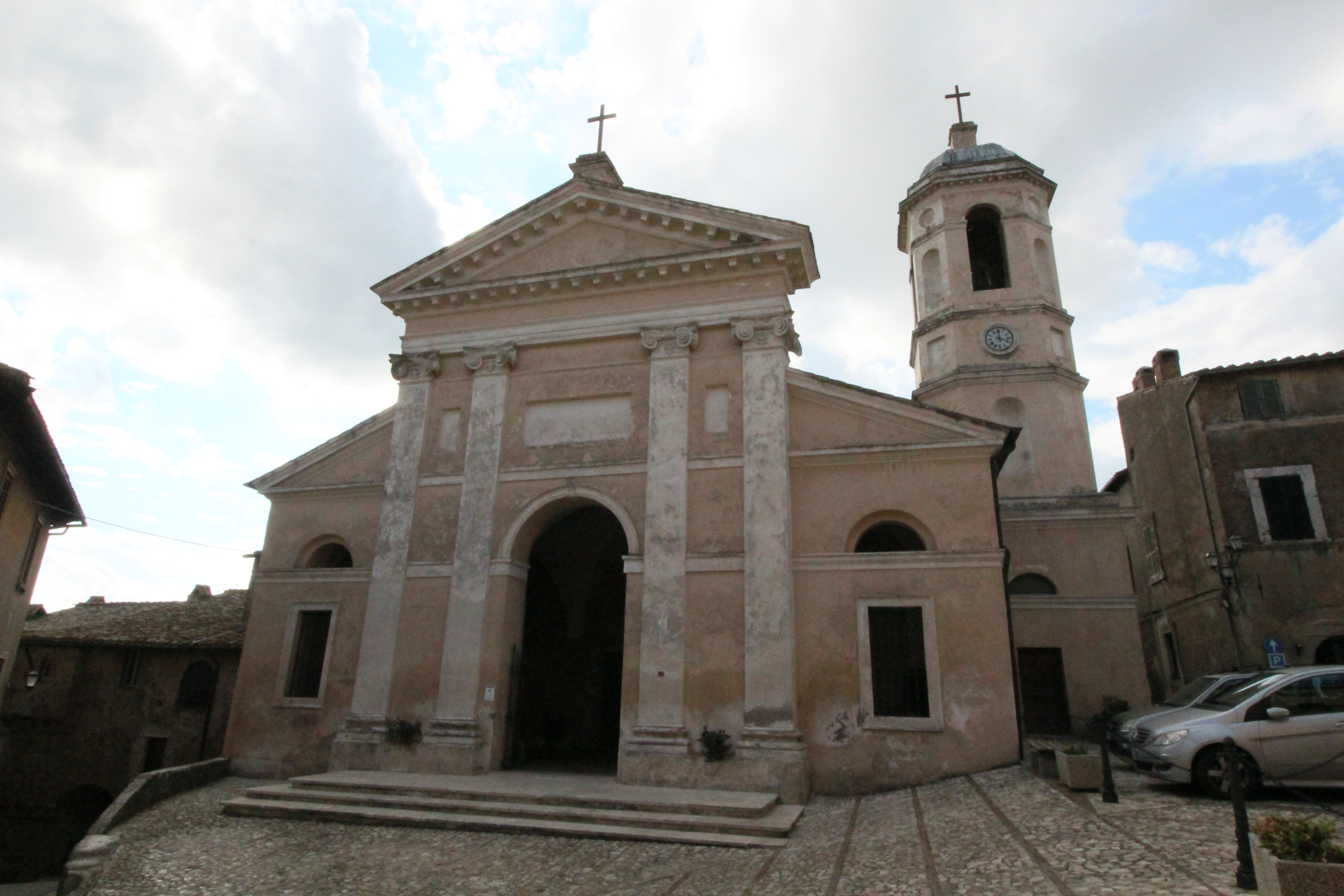 Parish Church Santa Maria Assunta in the City center of Otricoli, Province of Terni, Umbria, Italy